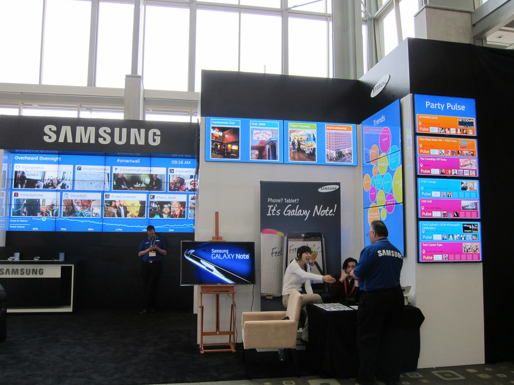 JESS3's Samsung installation at SXSW in 2012